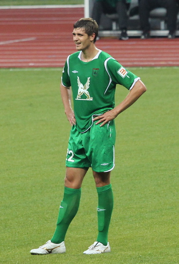 Alexandr Orekhov